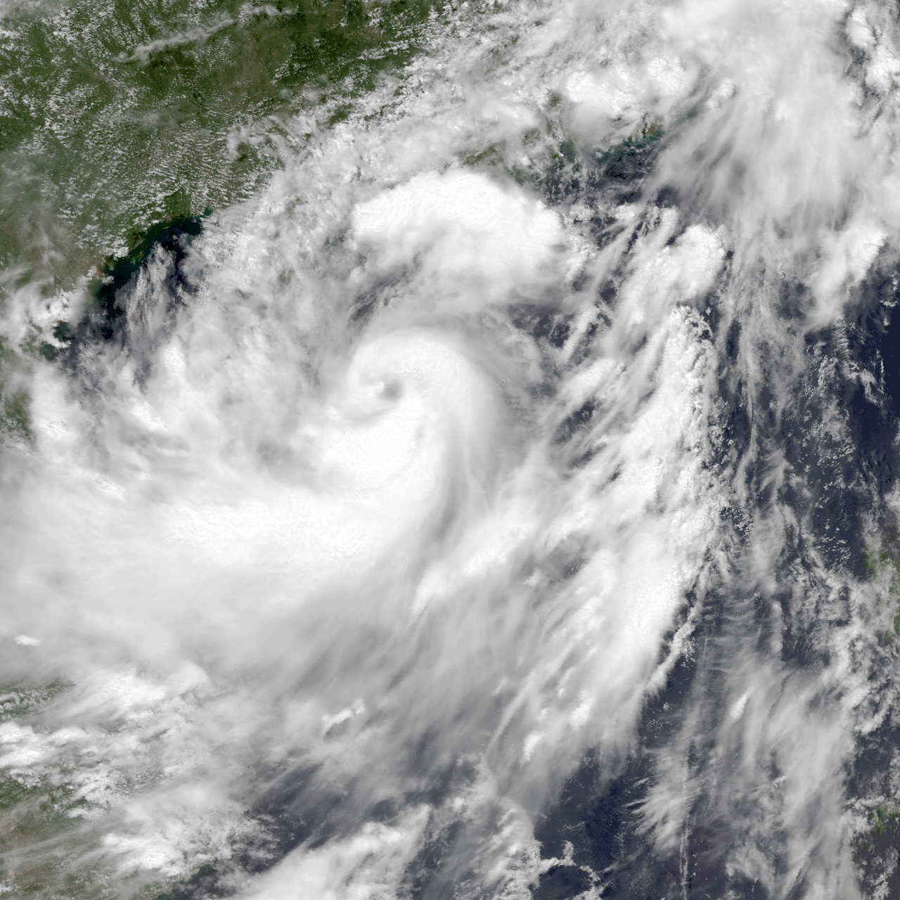 Severe Tropical Storm Jebi on August 2, 2013